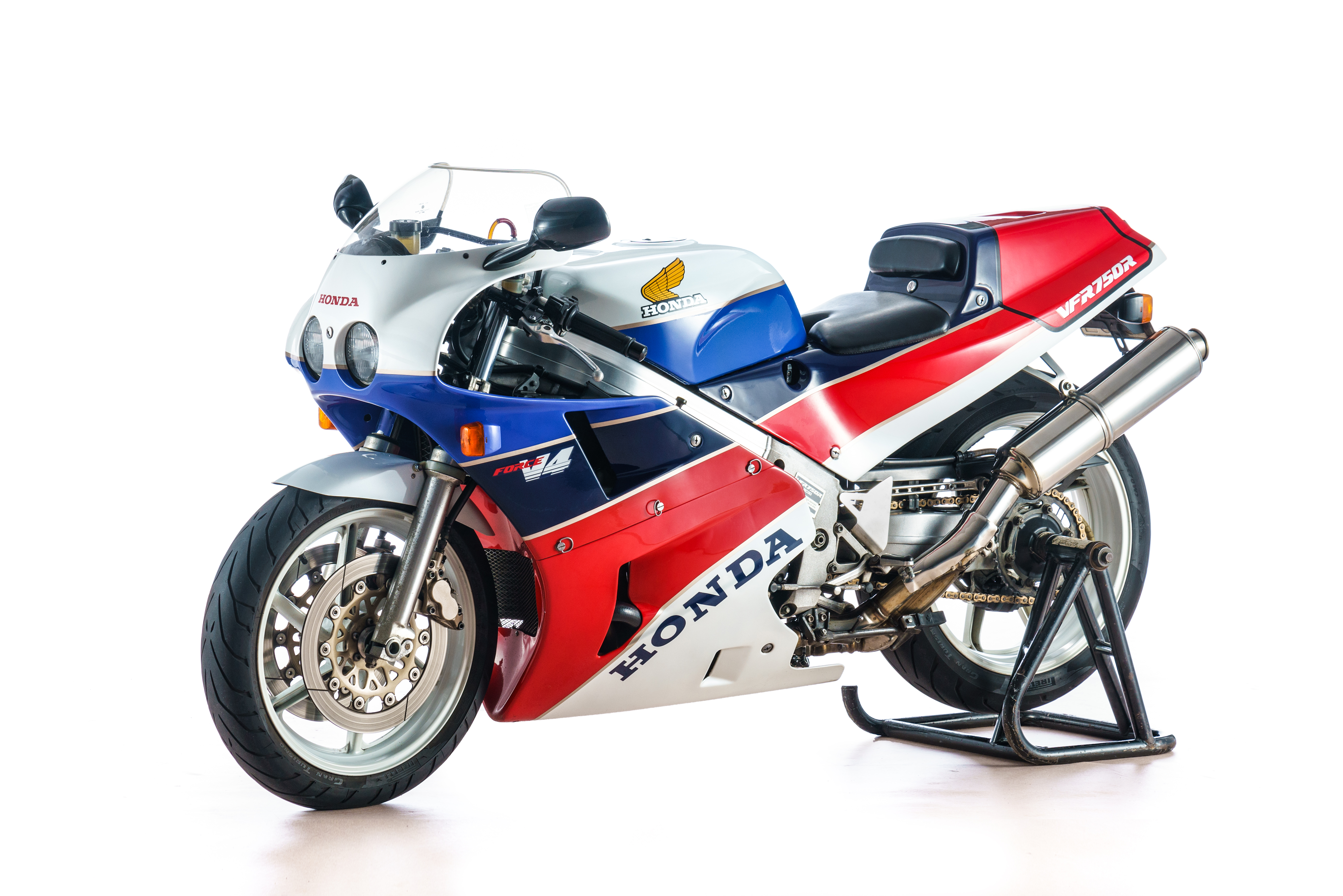 HONDA VFR750R(RC30) Author of this photo is Nobu.